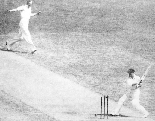 Newspaper photograph taken on 30 December 1932 at the Melbourne Cricket Ground. Copyright expired (ie. it is pre-1955). It appears on page 151 of "Bodyline Autopsy" by David Frith (2002) published by ABC Books ISBN 0 7333 1321-3.